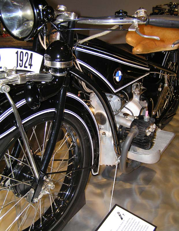 1923 BMW R32 - The Art of the Motorcycle - Memphis. 494 cc, bore x stroke: 68 x 68 mm. Power: 8.5 hp @ 3,200 rpm. Top speed: 62 mph (100 km/h). Collection of David Percival.